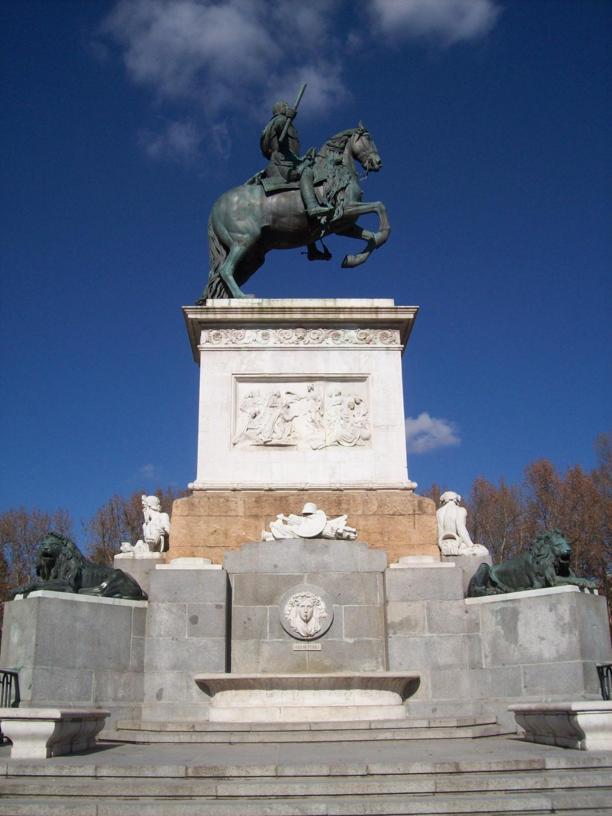 Side view of the Monument to Philip IV of Spain at the Plaza de Oriente (square) in Madrid (Spain).